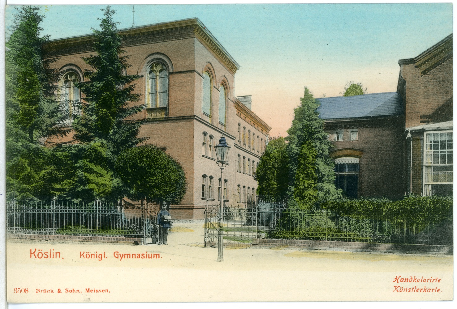 This postcard is from publisher Brück & Sohn in Meißen ( This postcard has a unique number 03508 and is available in a higher resolution at the publisher. This images was uploaded in a cooperation project between Wikipedians and the publisher.